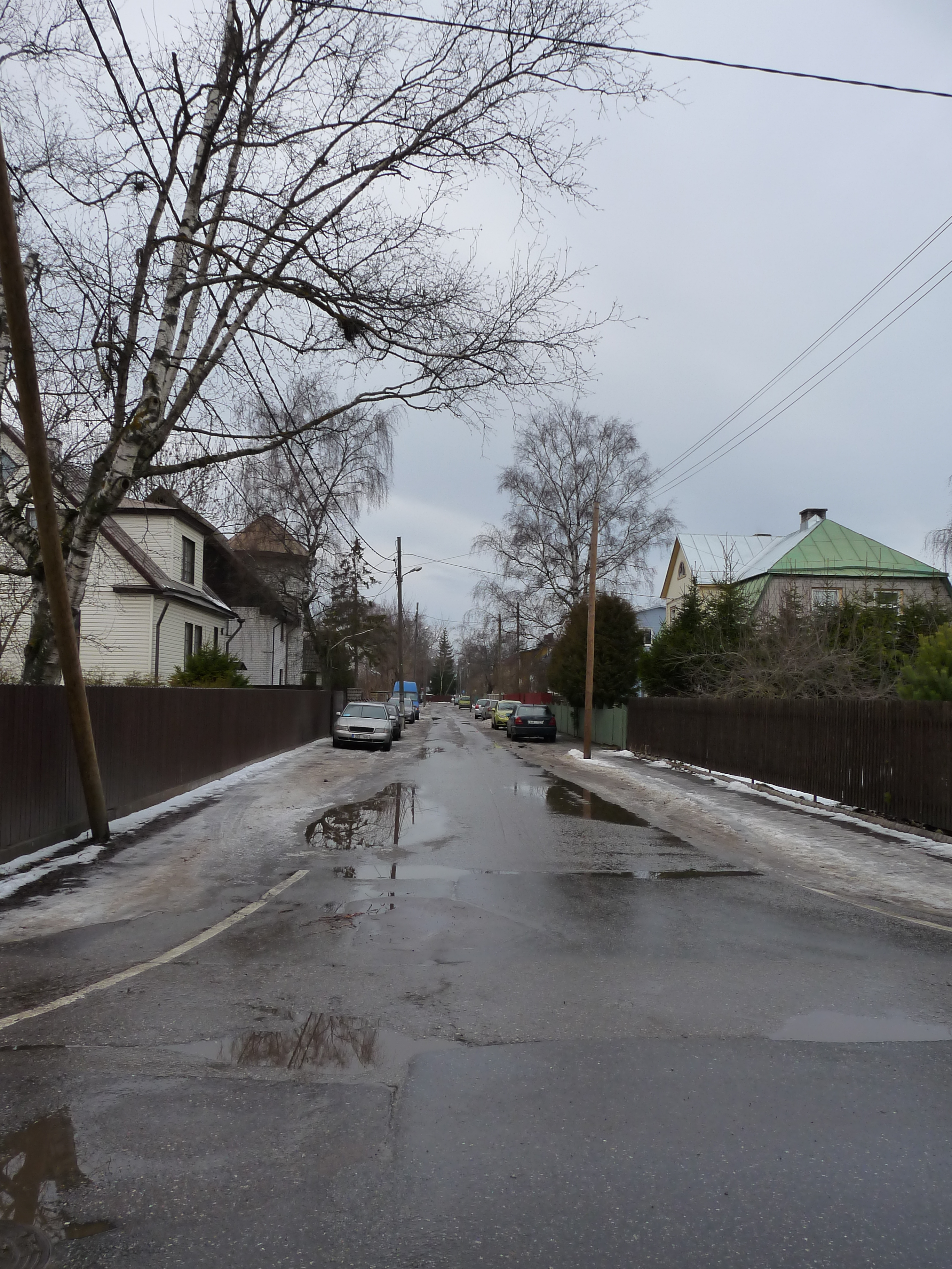 Välja street in Tallinn, Estonia